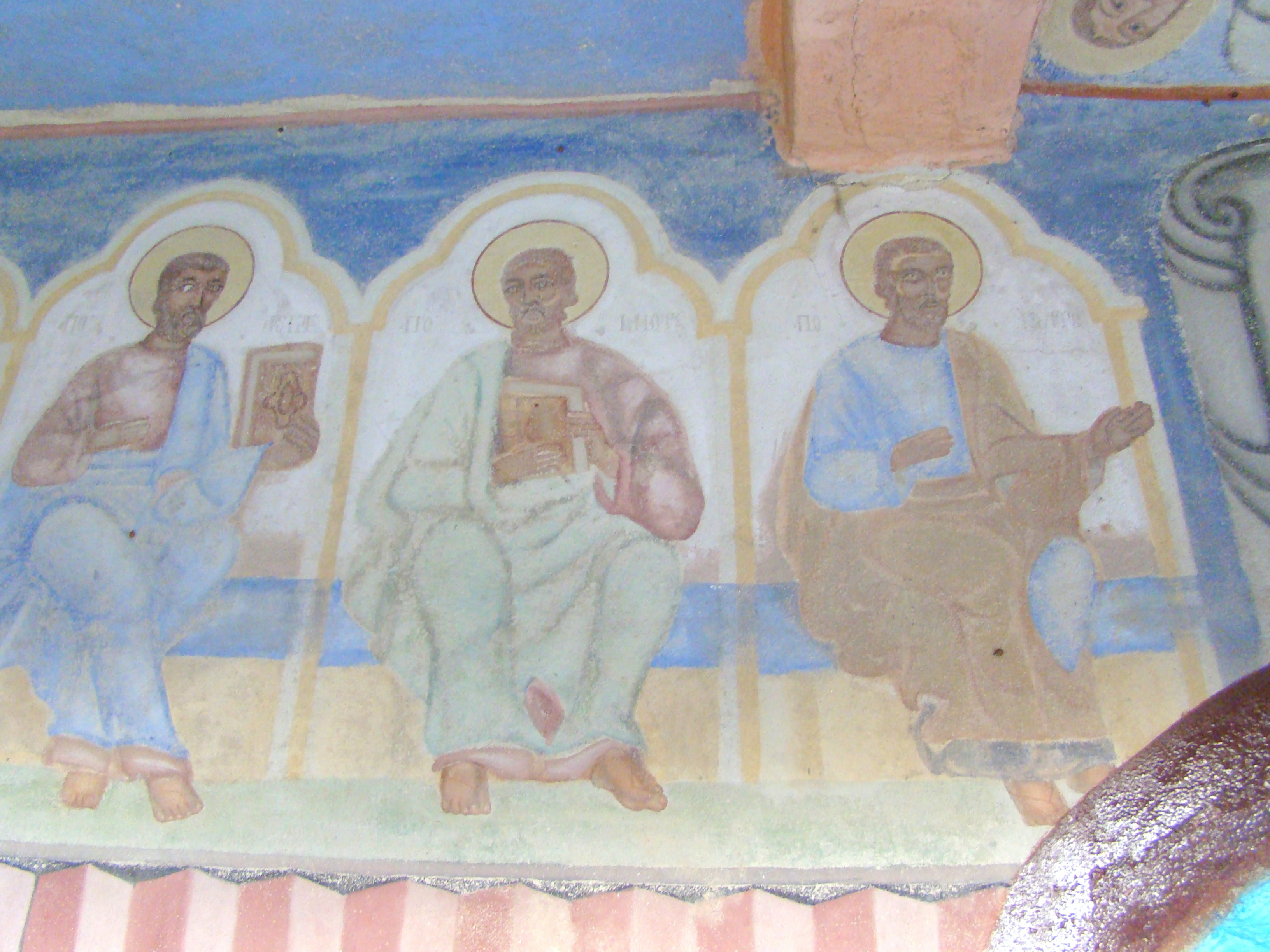 Wooden church in Băzăvani, Gorj county, Romania